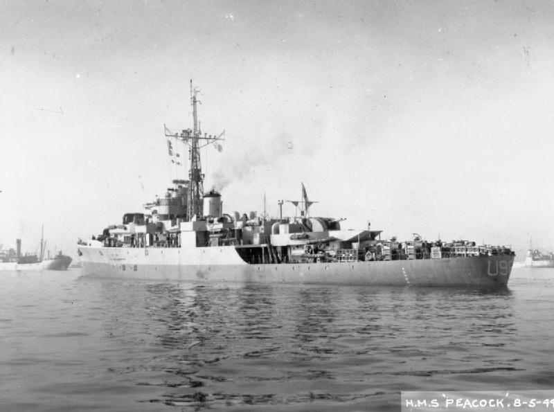 Photograph of British Black Swan class sloop HMS Peacock.